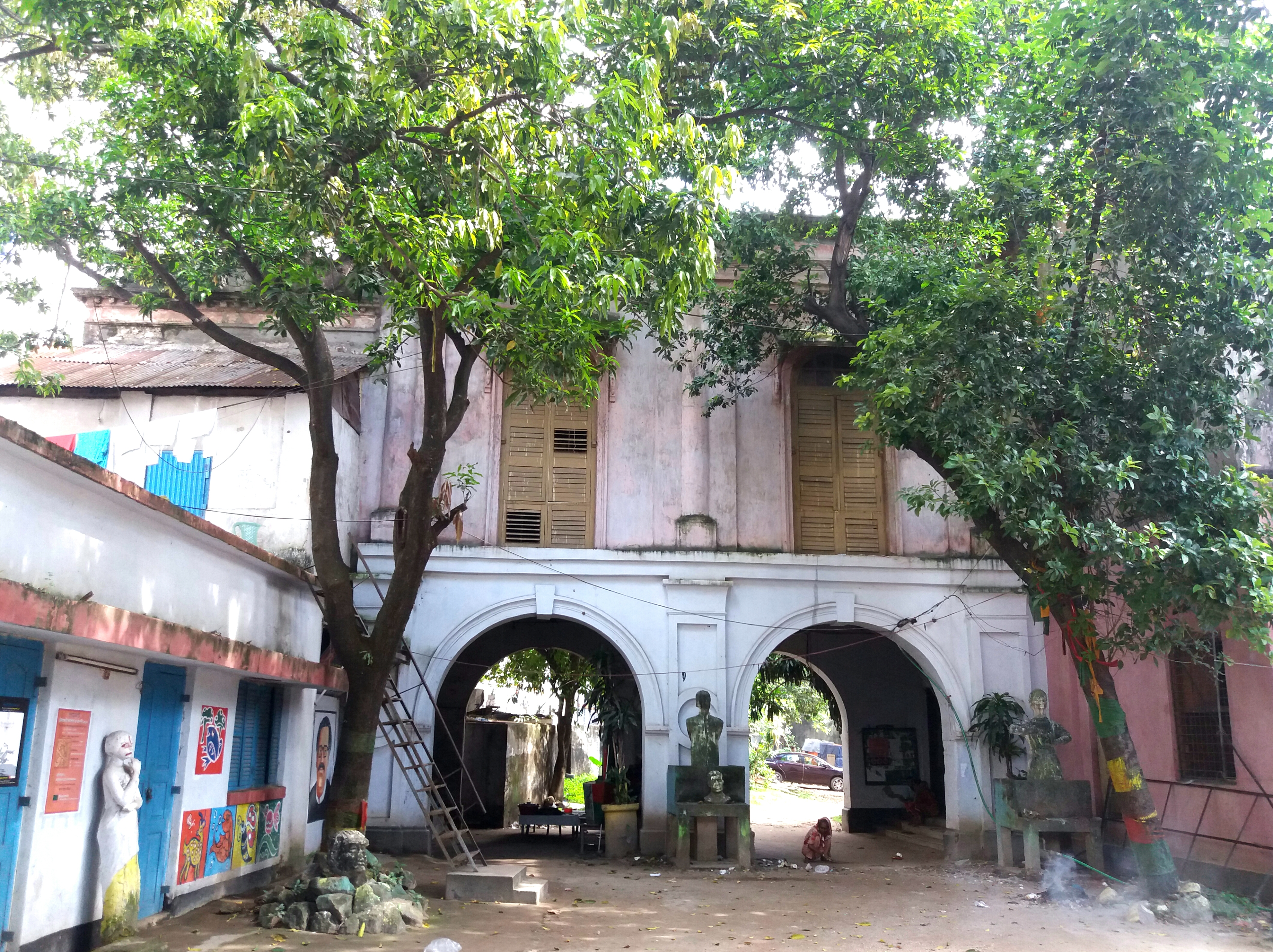 Bulbul Academy of Fine Arts, Dhaka since 1955 The house was built by Nicholas Pogose and bought by Dr. James Weis. It is known as Weis House